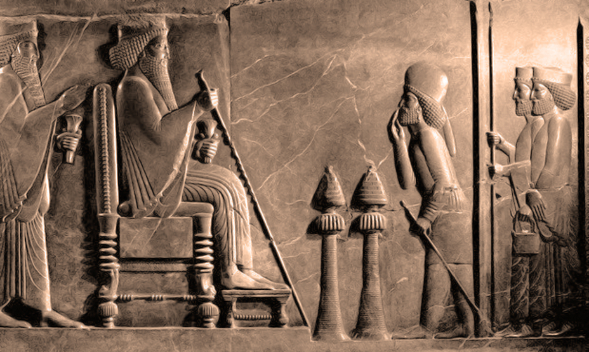 Persepolis, Iran - Apadana Audience relief (found at the Treasury). Detail showing the king in the throne.